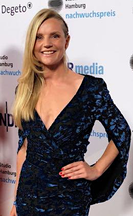 Kim-Sarah Brandts attend the Studio Hamburg Nachwuchspreis 2018